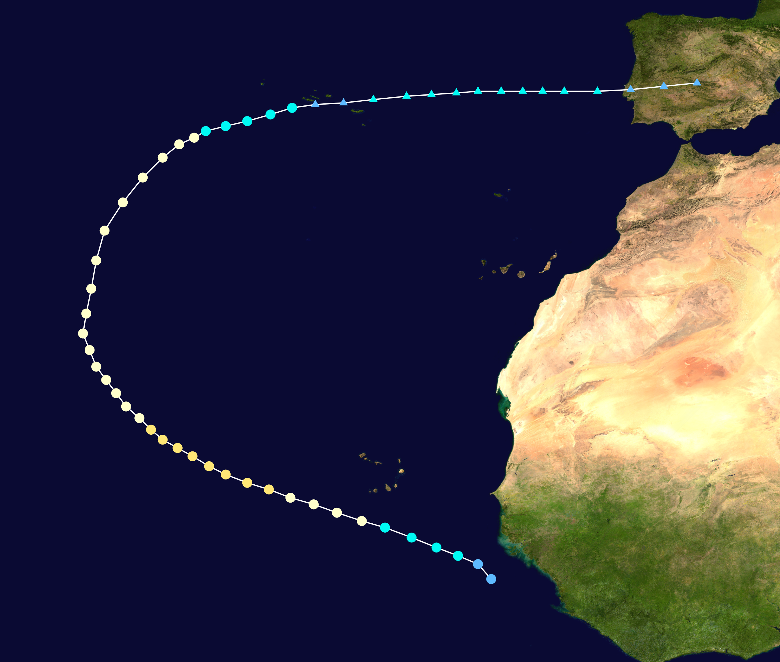 Track map of Hurricane Jeanne of the 1998 Atlantic hurricane season. The points show the location of the storm at 6-hour intervals. The colour represents the storm's maximum sustained wind speeds as classified in the Saffir–Simpson scale (see below), and the shape of the data points represent the nature of the storm, according to the legend below. Saffir–Simpson scale Tropical depression≤38 mph≤62 km/h Category 3111–129 mph178–208 km/h Tropical storm39–73 mph63–118 km/h Category 4130–156 mph209–251 km/h Category 174–95 mph119–153 km/h Category 5≥157 mph≥252 km/h Category 296–110 mph154–177 km/h Unknown Storm type Tropical cyclone Subtropical cyclone Extratropical cyclone / Remnant low / Tropical disturbance / Monsoon depression